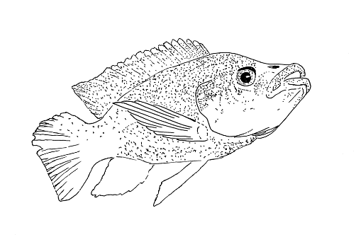 Oreochromis mossambicus